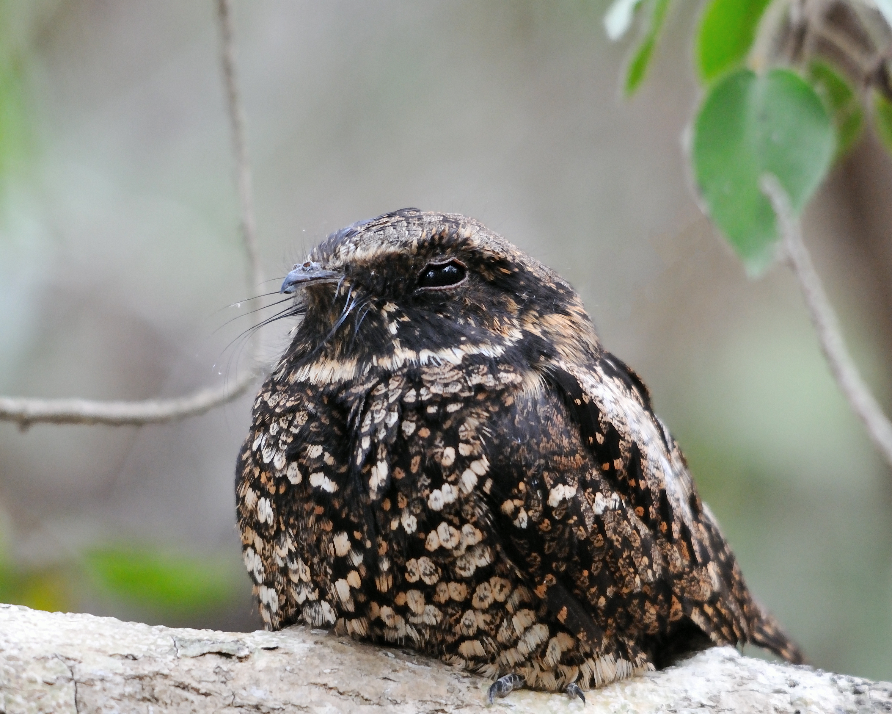 Puerto Rican nightjar. Alternative Title: Caprimulgus noctitherus